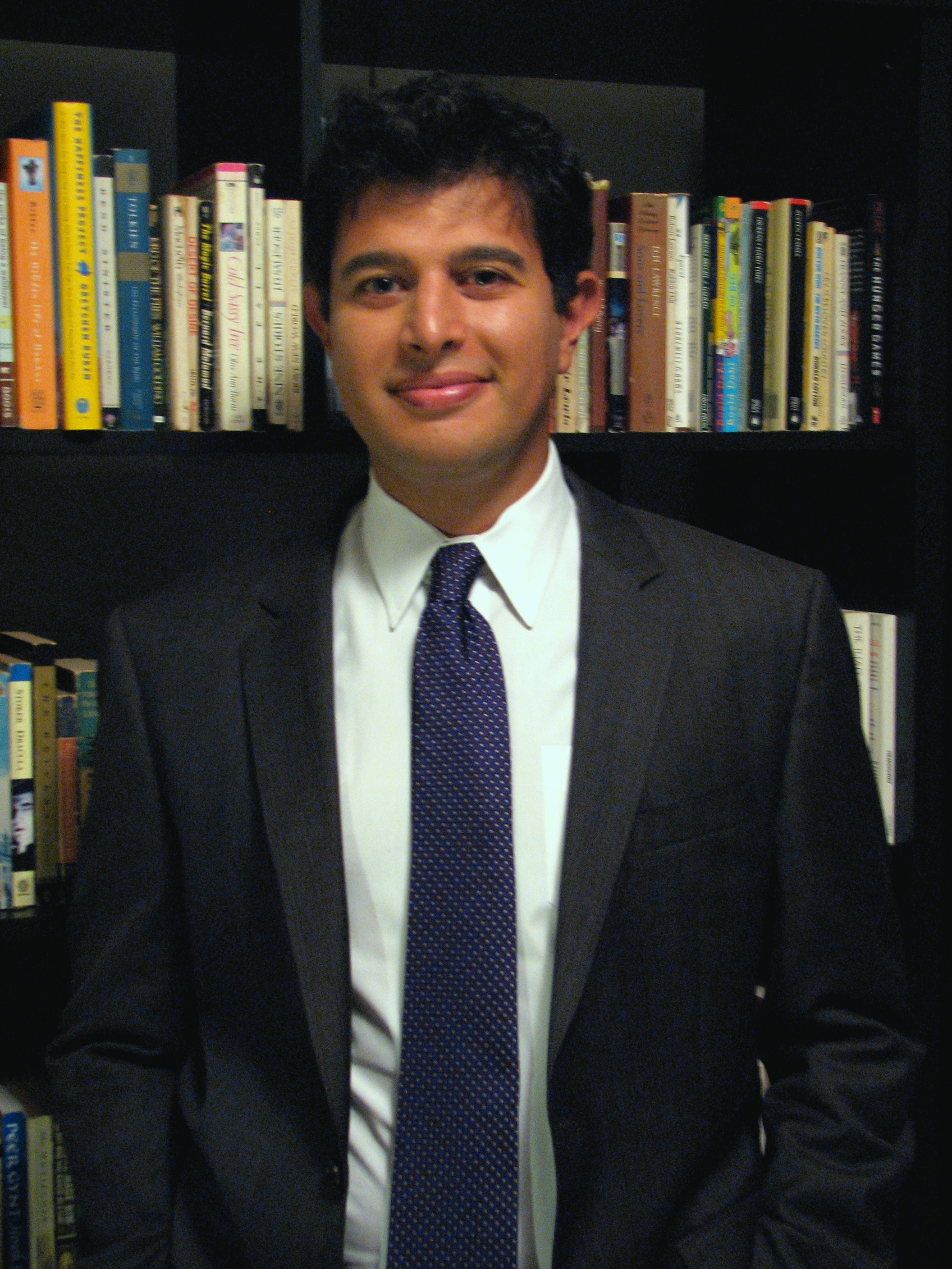 Image of George Farah writer and lawyer at a social occasion in New York.